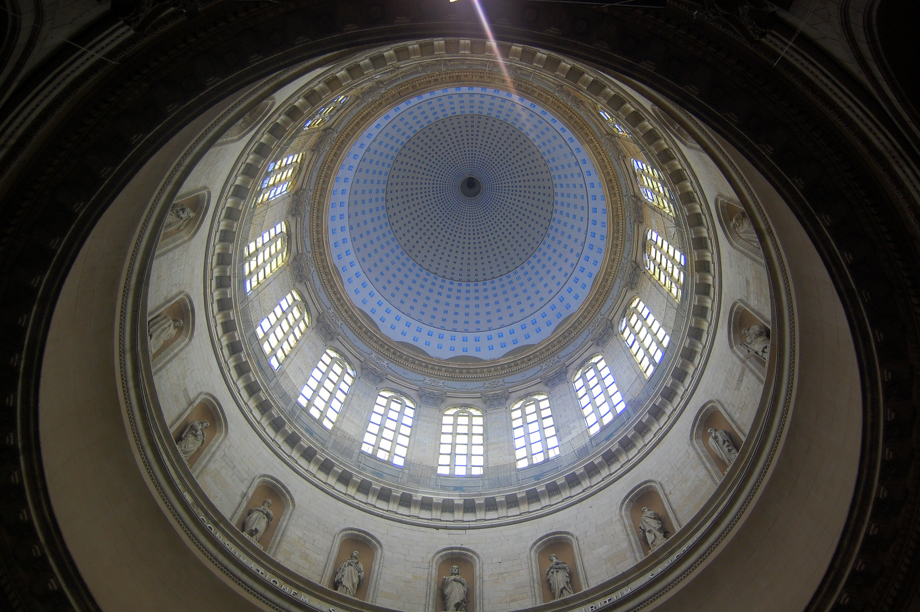 Coupole de la Basilique Notre-Dame, Boulogne sur Mer, France